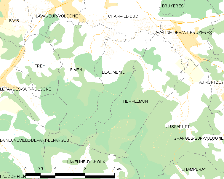 Map of French municipality Beauménil